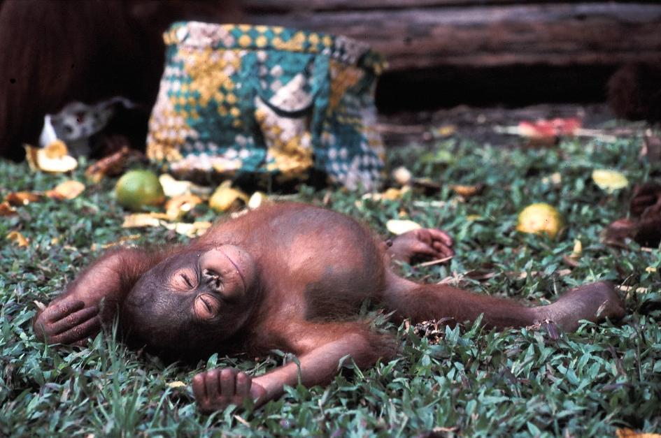 It's not in a zoo , but in an animal rescue center. The largest in the world that brings animals back to where they belong. In Nyaru Menteng , central Borneo. It is not open for visitors , we were very privileged to be there. I made this color slide show and give lectures to make people aware of the problems. P.S.: there isn't a frame added either. I didn't recut the scanned image.